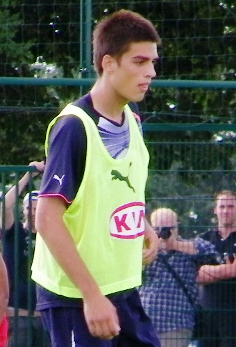 Vujadin Savic